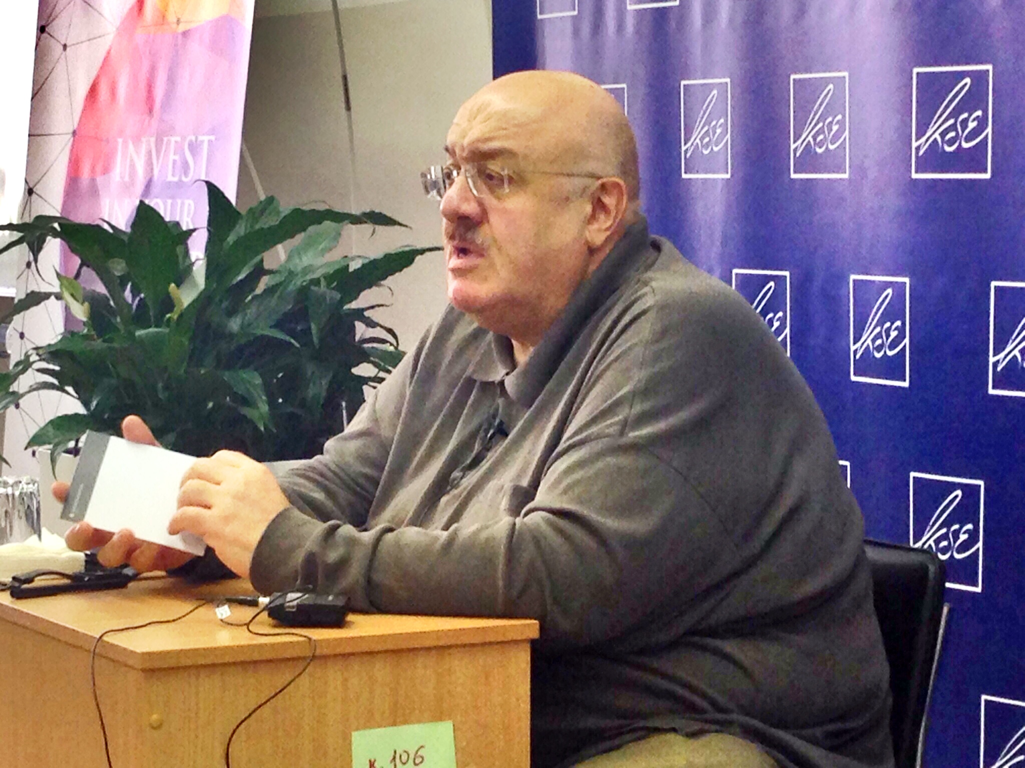 Kakha Bendukidze in Kyiv School of Economics